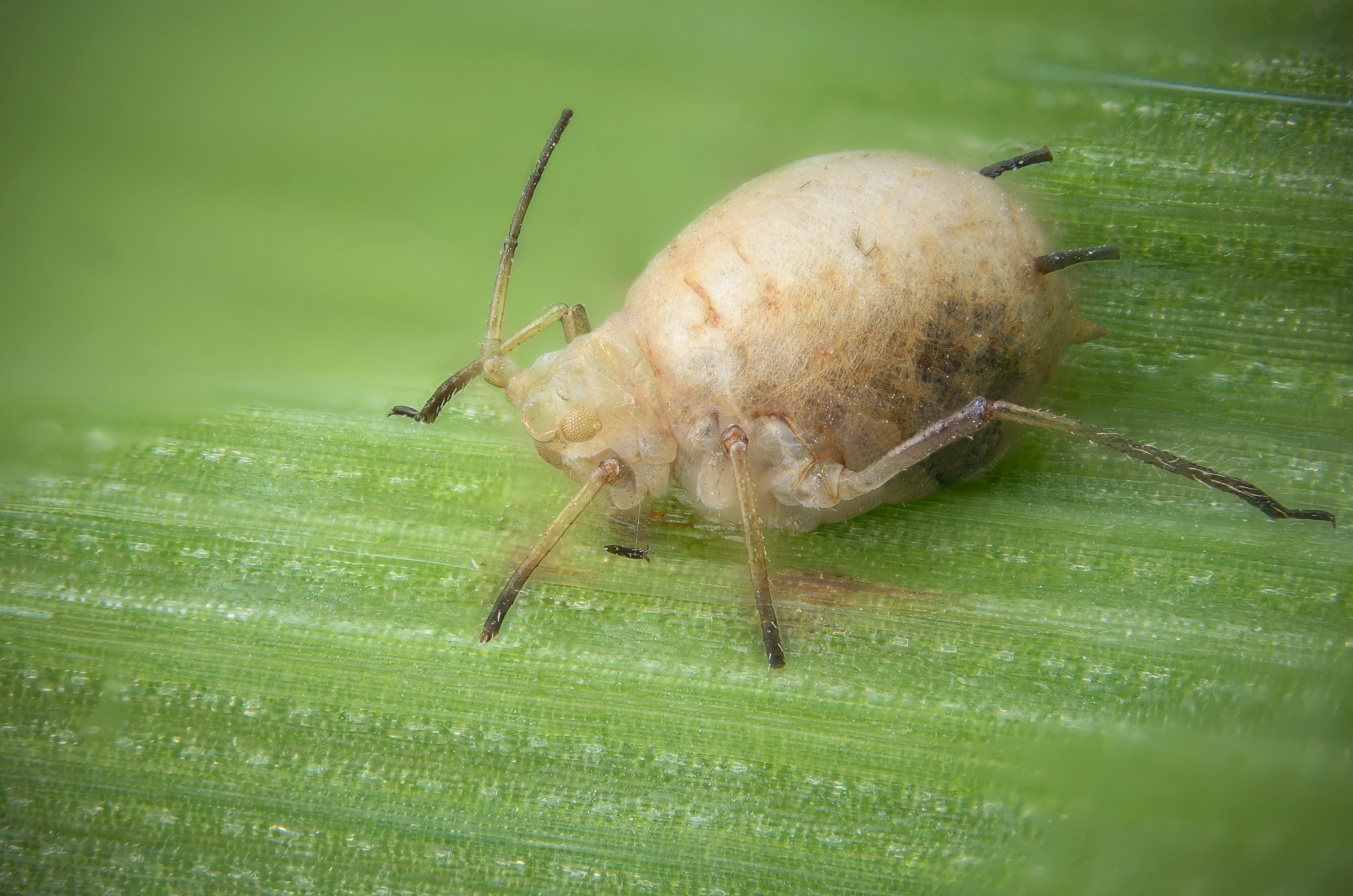 Mummy of the aphid Sitobion avenae parasited by the parasitoid wasp Aphidus rhopalosiphi (Braconidae - Aphidiinae). Scale : aphid length ~ 2mm (magnification ~6:1) Technical settings : - focus stack of ~113 images - microscope objective (Nikon achromatic 10x 160/0.25) dirrectly on the camera body (25 mm extension from the adapter) + crop (vignetting !)